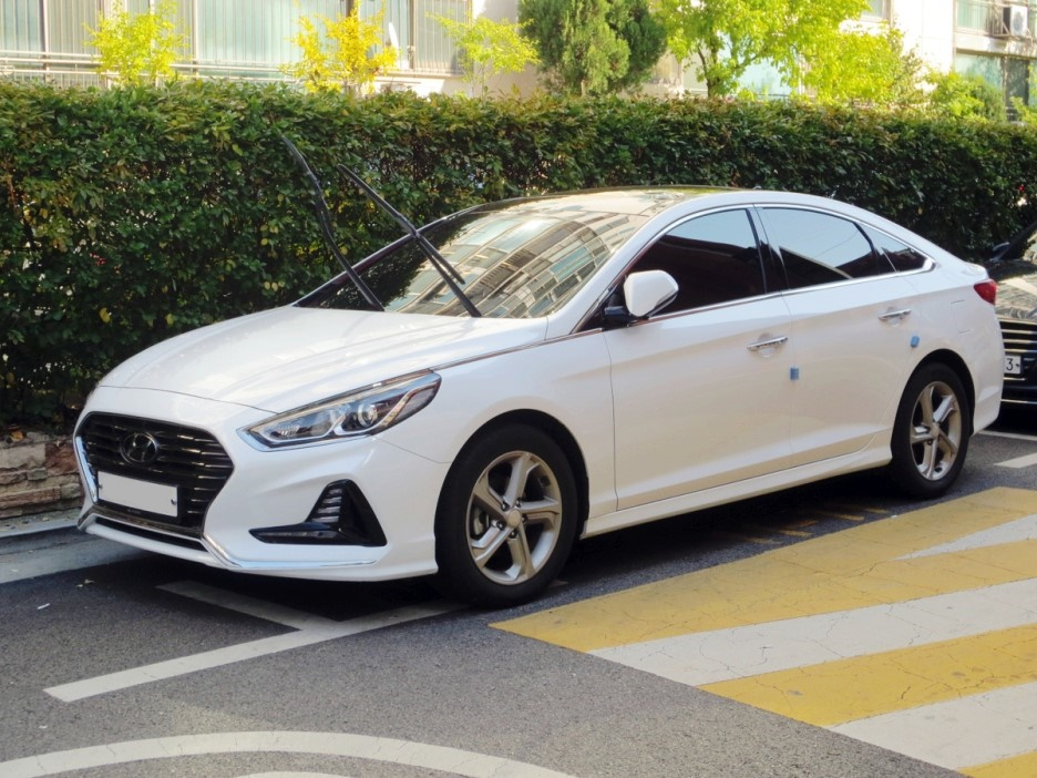 Hyundai Sonata (LF)